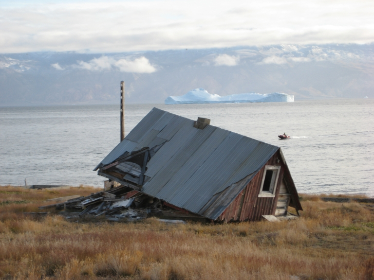 Qllissat: Destroyed house